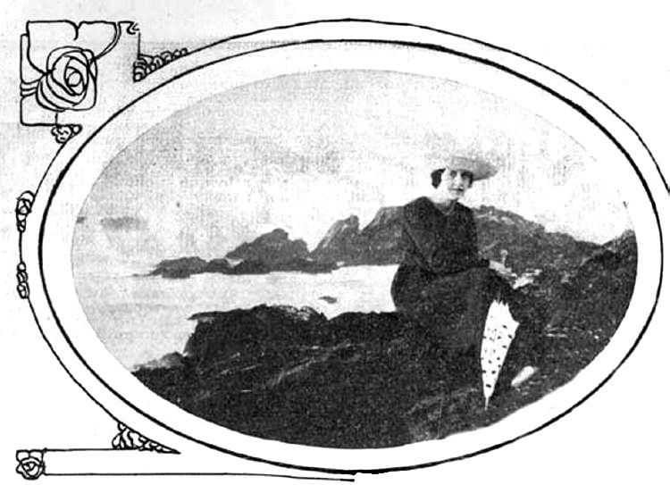 Magdalena Petit on the Pichilemu's rocks, 1918.